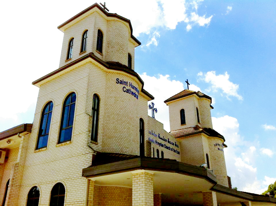 Saiht Hurmizd Cathedral in Greenfield Park.